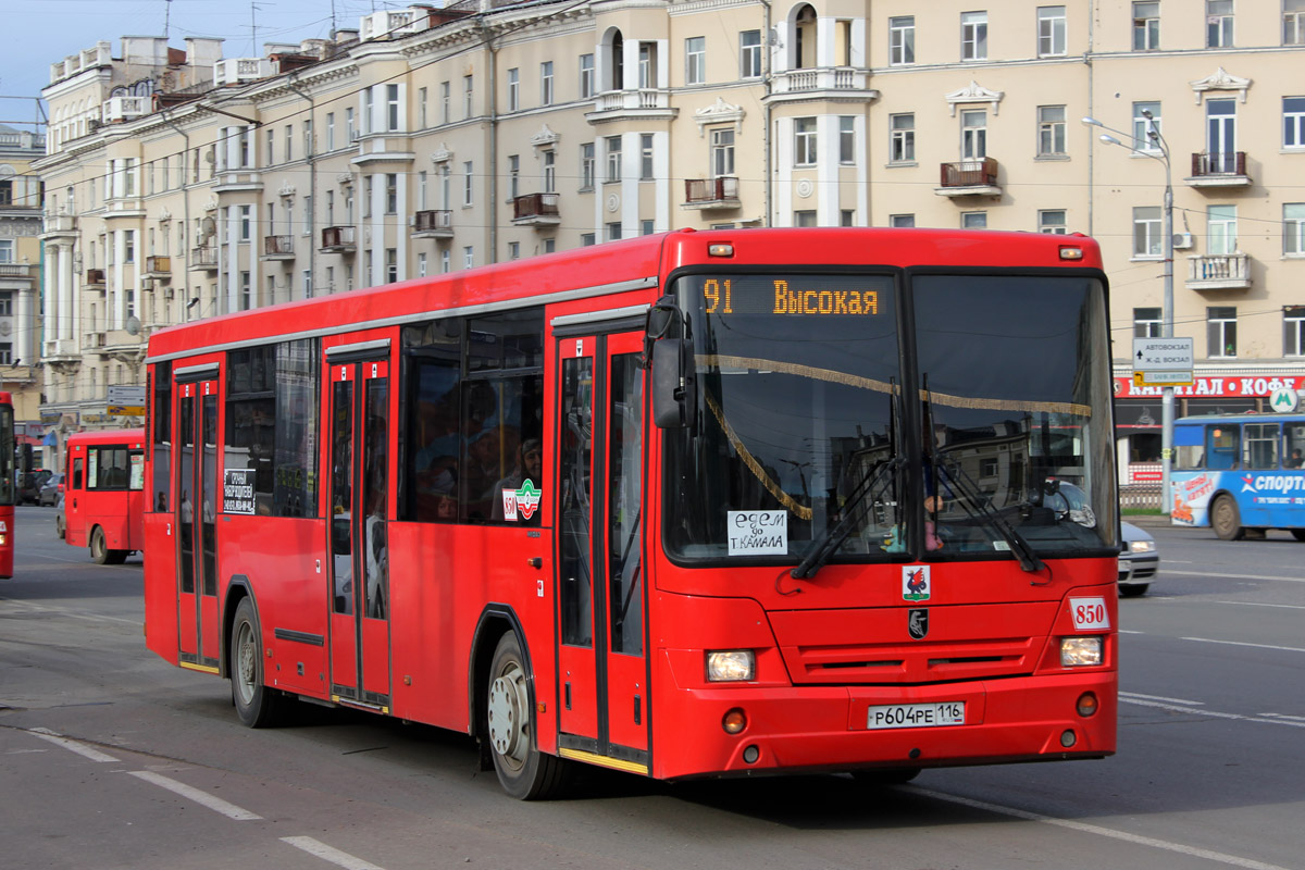 NefAZ-5299-30-32